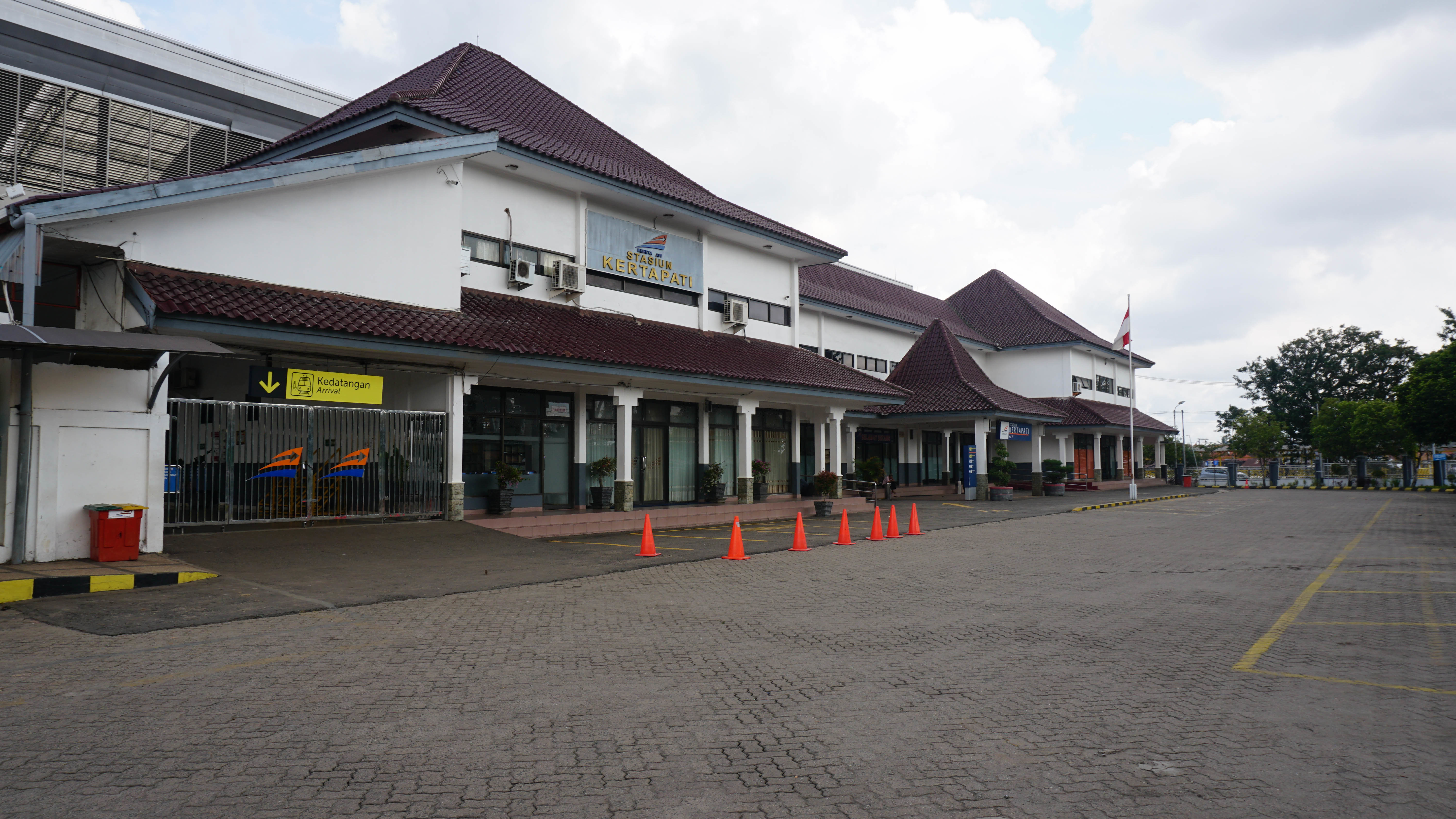 Kertapati Railway Station Building